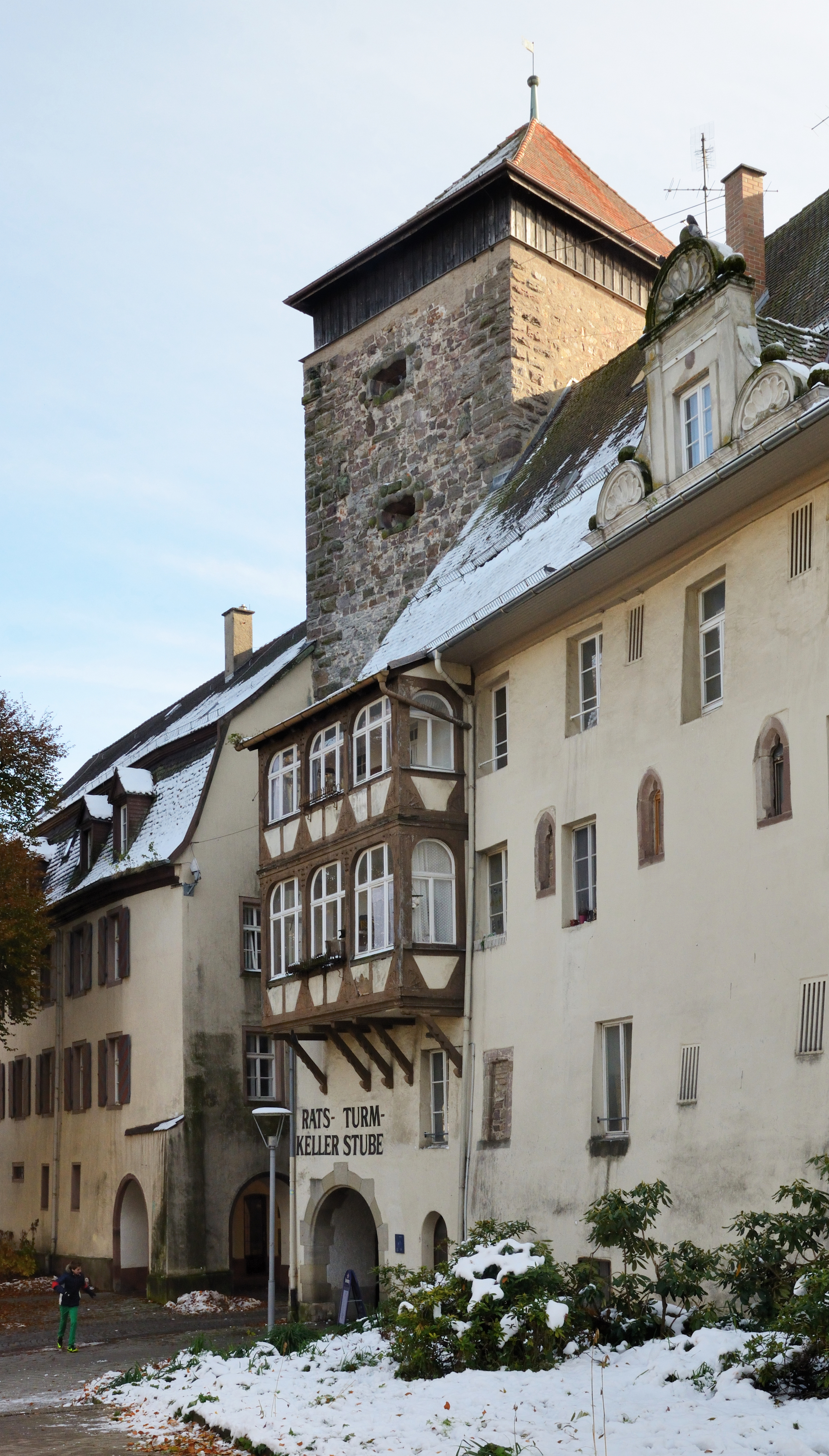 Villingen: Upper gate